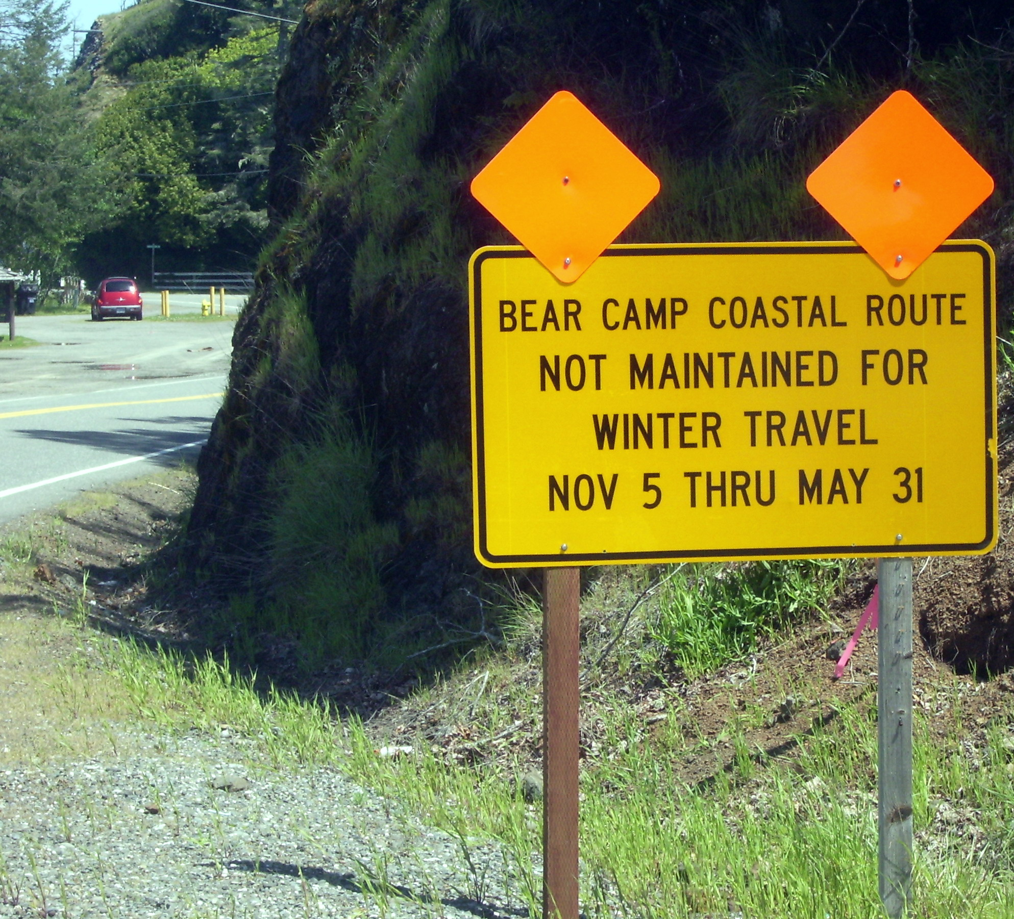 Warning sign for the west end of Bear Camp Road just outside Gold Beach Oregon where it is known as Jerrys Flat Road